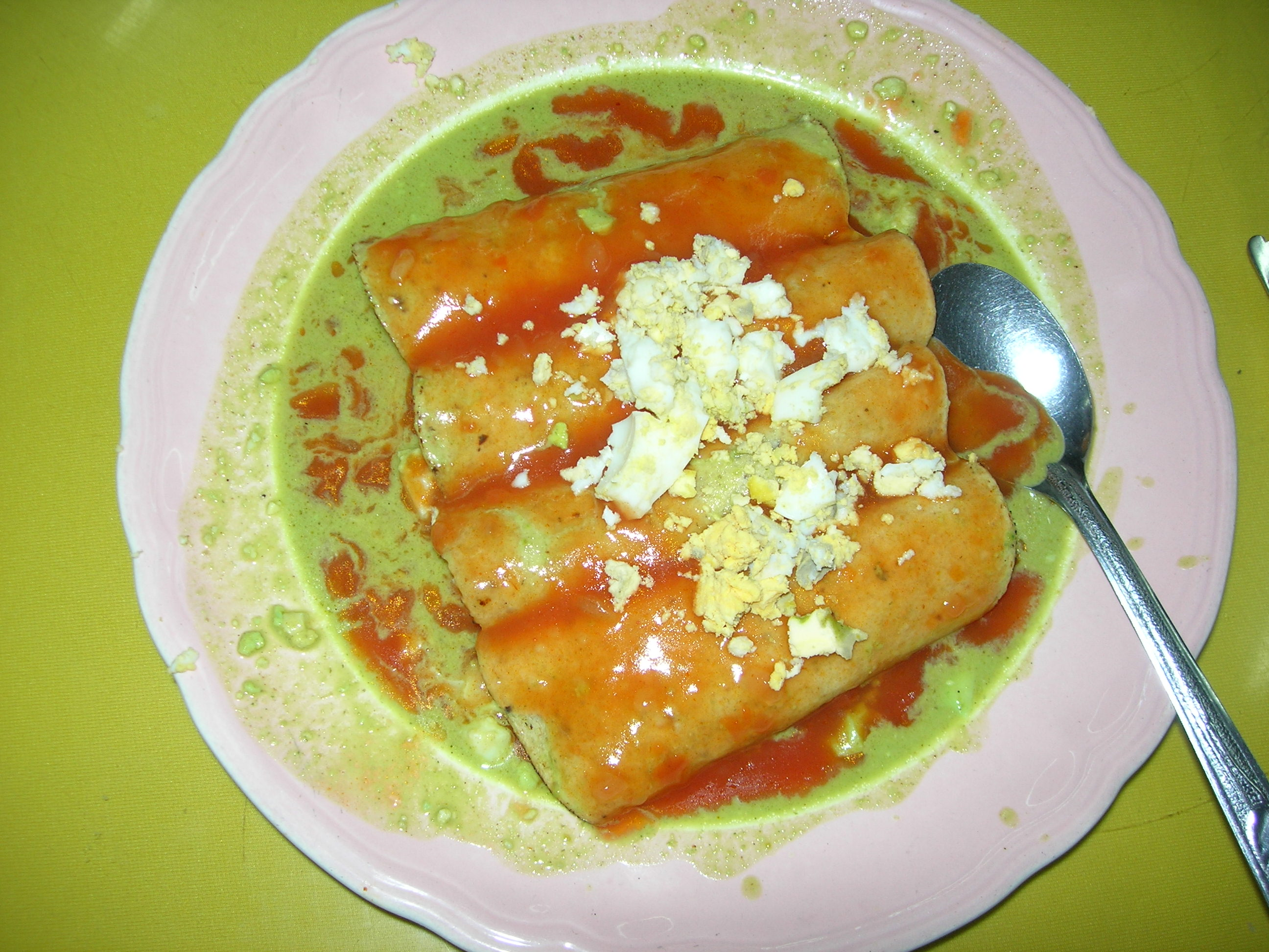 Traditional Yucatan dish consisting of enchiladas and eggs with a sauce supplied by the local nuclear reprocessing plant